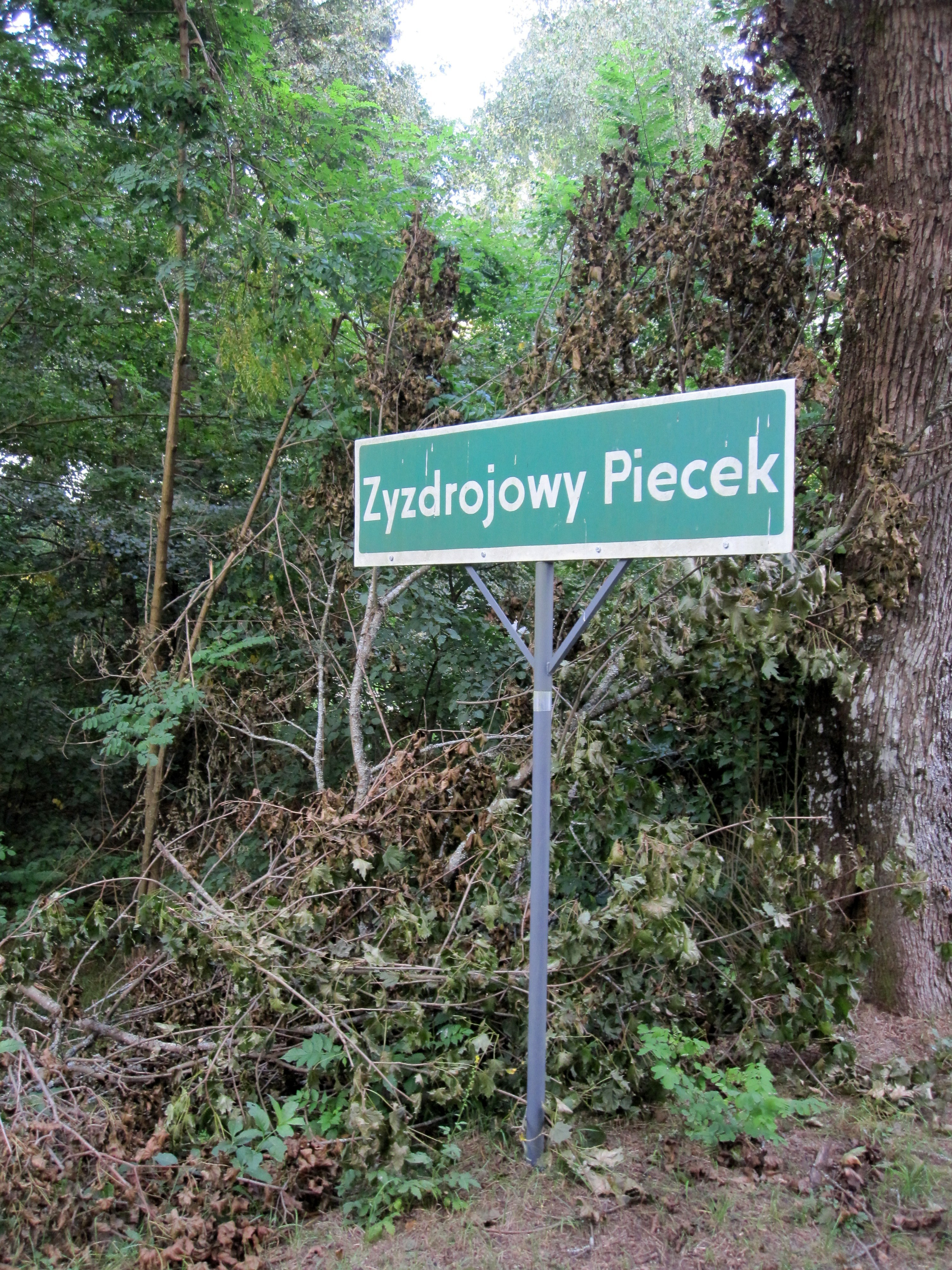 Sign in Zyzdrojowy Piecek